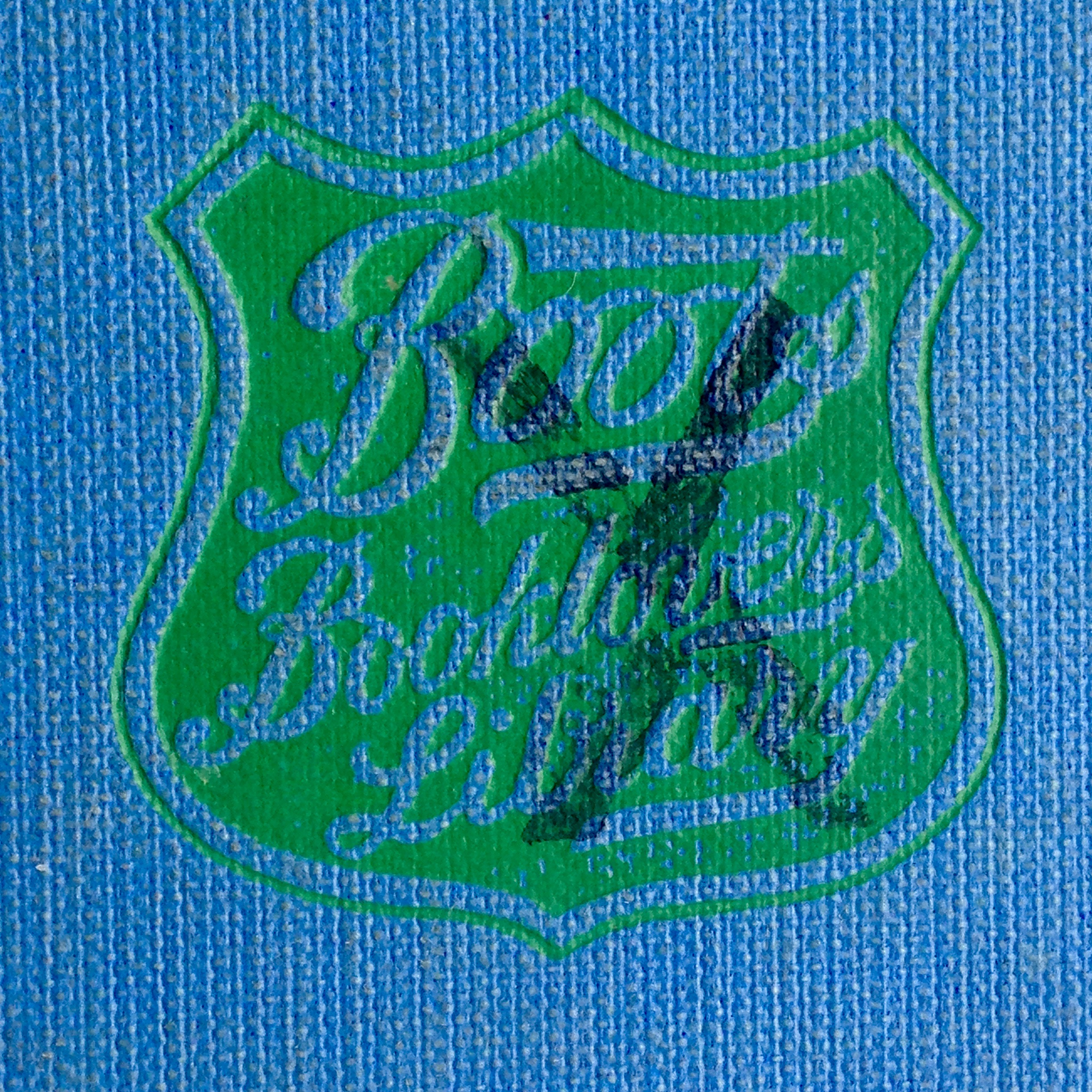 Close-up of the Boots Booklovers Library logo from the front cover of a 1954 book